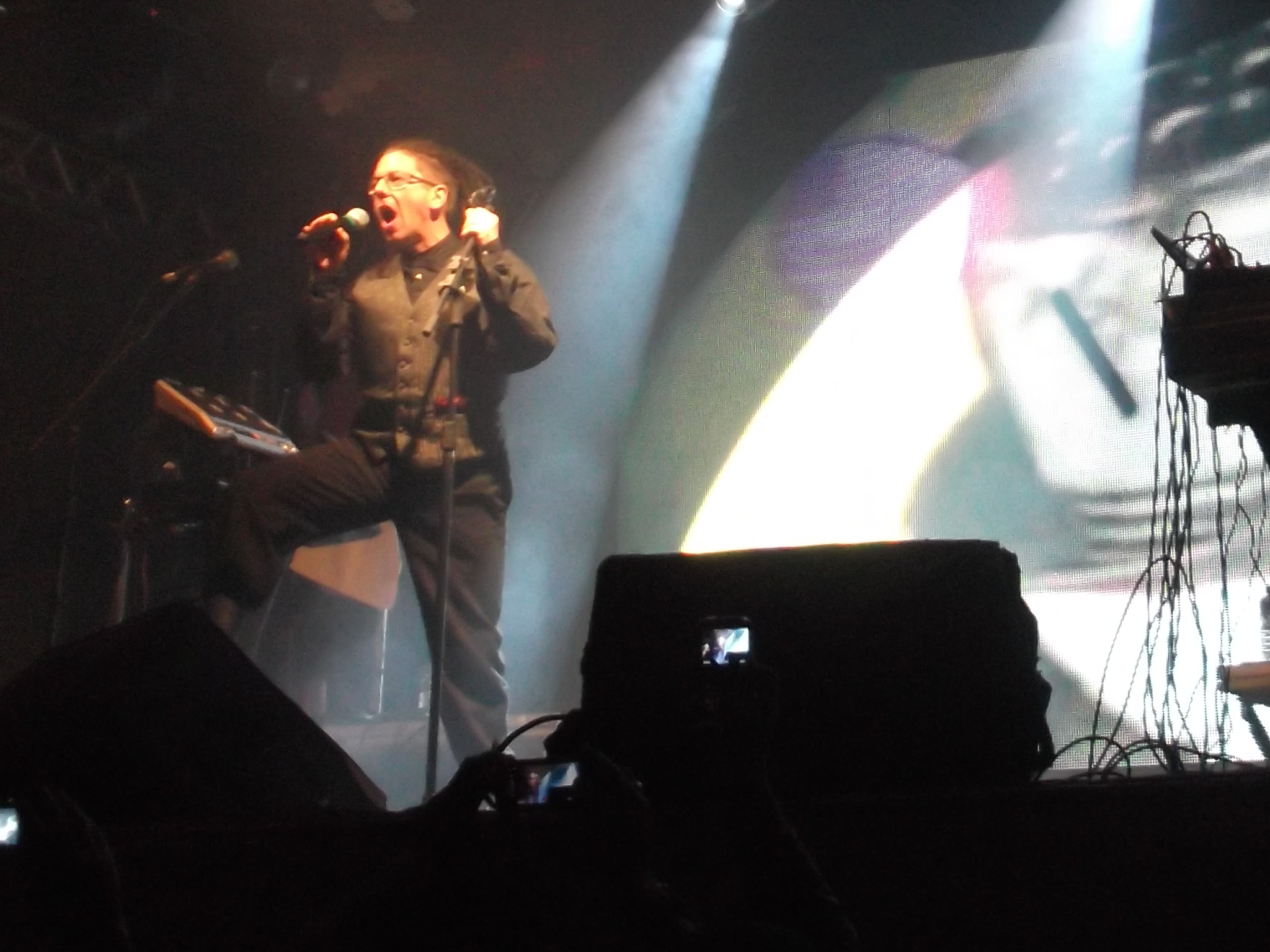 Kurt Harland performing live on July 21st 2012 at Taubaté, São Paulo, Brazil